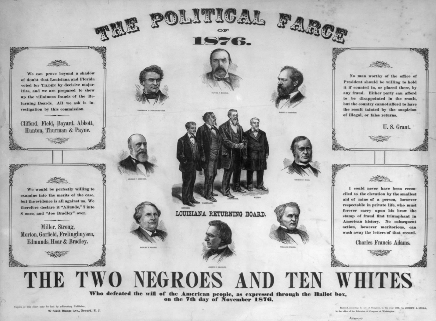 Print showing bust portraits of eight men, identified as, clockwise from top, Oliver P. Morton, James A. Garfield, George F. Hoar, William Strong, Joseph P. Bradley, Samuel F. Miller, George F. Edmunds, and Frederick T. Frelinghuysen; also a group of four men identified as the "Louisiana Returning Board", from left, Kenner, Casenave, Anderson, and Wells. Includes text of four quotes regarding election fraud, such as this by Messrs. Clifford, Field, Bayard, Abbott, Hunton, Thurman & Payne, "We can prove beyond a shadow of doubt that Louisiana and Florida voted for Tilden by decisive majorities, and we are prepared to show up the villainous frauds of the Returning Boards. All we ask is investigation by this commission" and this by U.S. Grant, "No man worthy of the office of President should be willing to hold it if counted in, or placed there, by any fraud. Either party can afford to be disappointed in the result, but the country cannot afford to have the result tainted by the suspicion of illegal, or false returns." In the 1876 presidential election, the election returns in four states were disputed; the final tally of votes showed Democratic candidate Samuel Tilden with approximately 250,000 more popular votes than Republican candidate Rutherford B. Hayes, though Hayes ended up with one more electoral vote than Tilden. On March 2, 1877, Congress met in a joint session and declared Hayes and Wheeler president and vice-president.